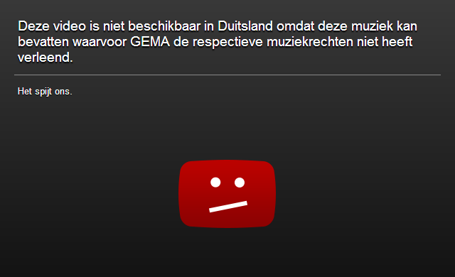 Unfortunately, this video is not available in Germany, because it may contain music for which GEMA has not granted the respective music rights.